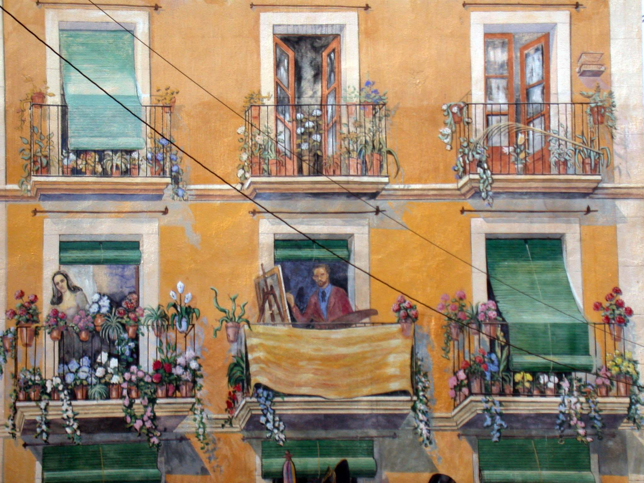 Spain, Tarragona, old town in the area of the roman circus. Old house with murales. Personal photo (september 2005) by MM in it.wiki.